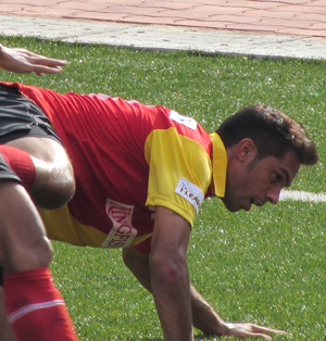 Robin Singh